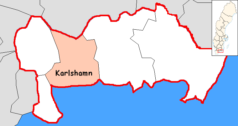 Karlshamn Municipality in Blekinge County, Sweden.